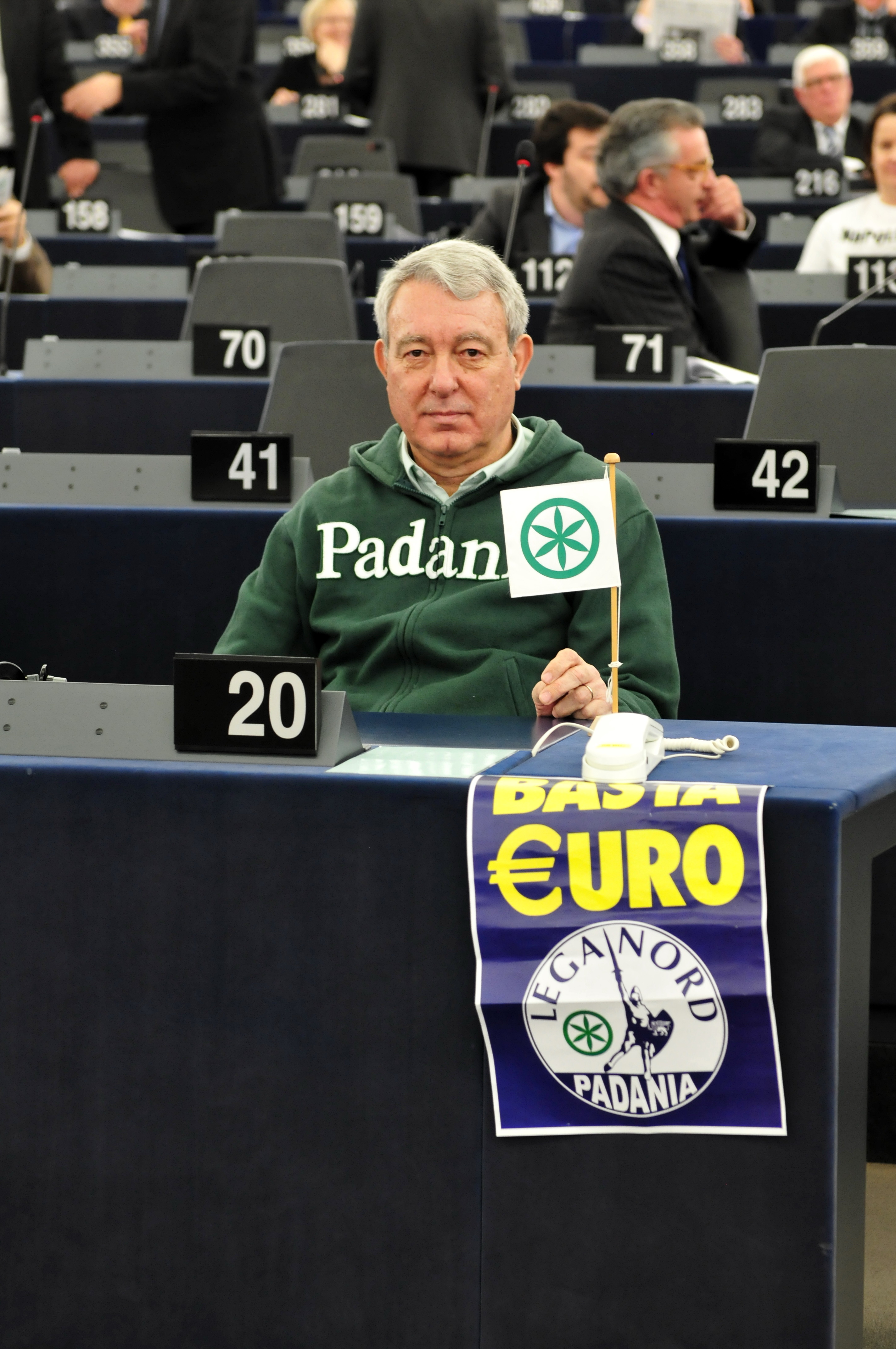 Francesco Speroni, italian politican in european parliament European Parliament 2014 3.–7. February 2014, StrasbourgThis photo has been created within the project "WIKI loves parliaments / European Parliament". Usage and Help If you have any questions concerning this picture or how to use it, feel free to Personality rights warningAlthough this work is freely licensed or in the public domain, the person(s) shown may have rights that legally restrict certain re-uses unless those depicted consent to such uses. In these cases, a model release or other evidence of consent could protect you from infringement claims.